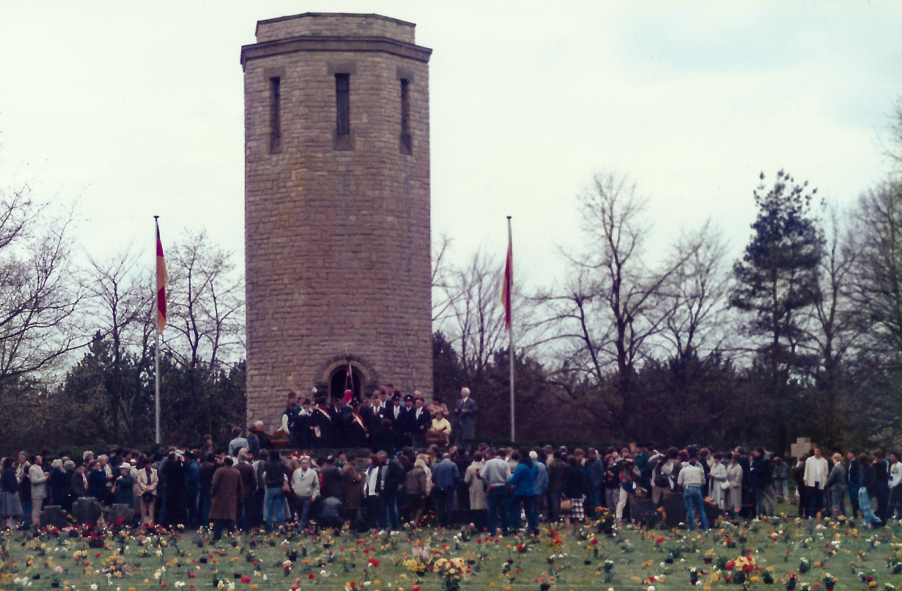 Ceremonial visit by U.S. President Ronald Reagan to the Kolmeshöhe Cemetery, near Bitburg, West German in May 5, 1985, with German Chancellor Helmut Kohl